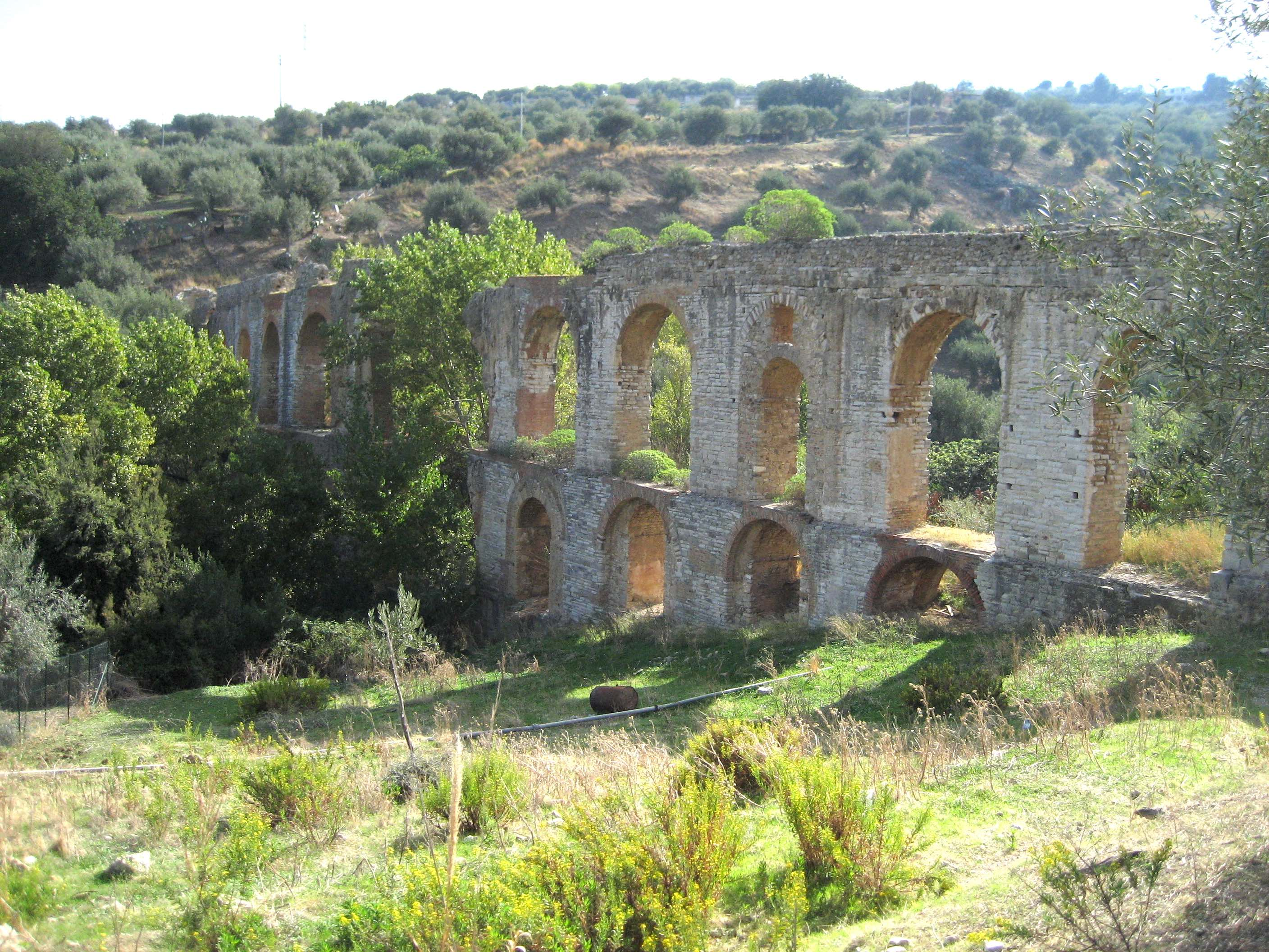 arches near to the town